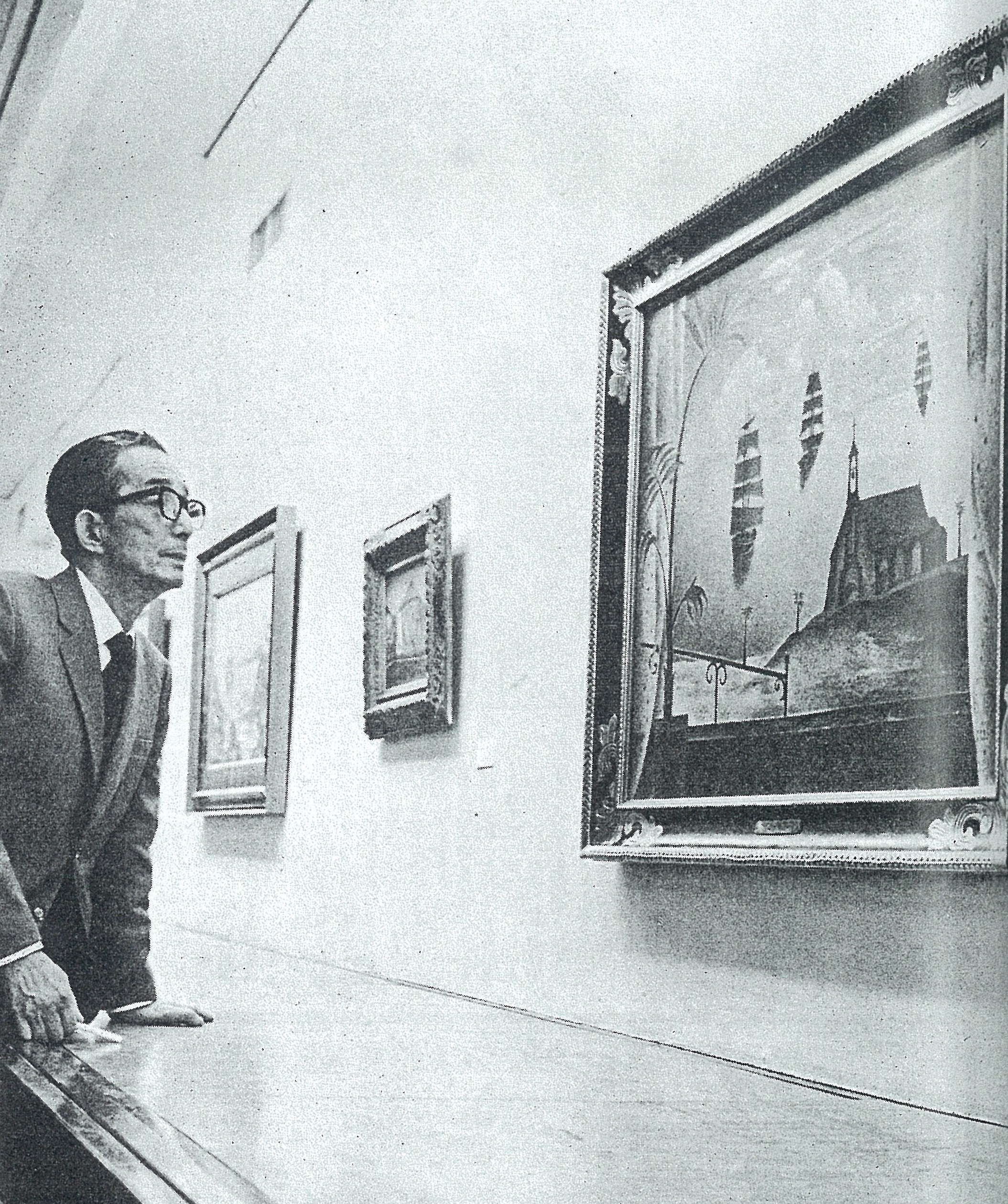 Shikanosuke Oka (1898-1978) is a Japanese painter.